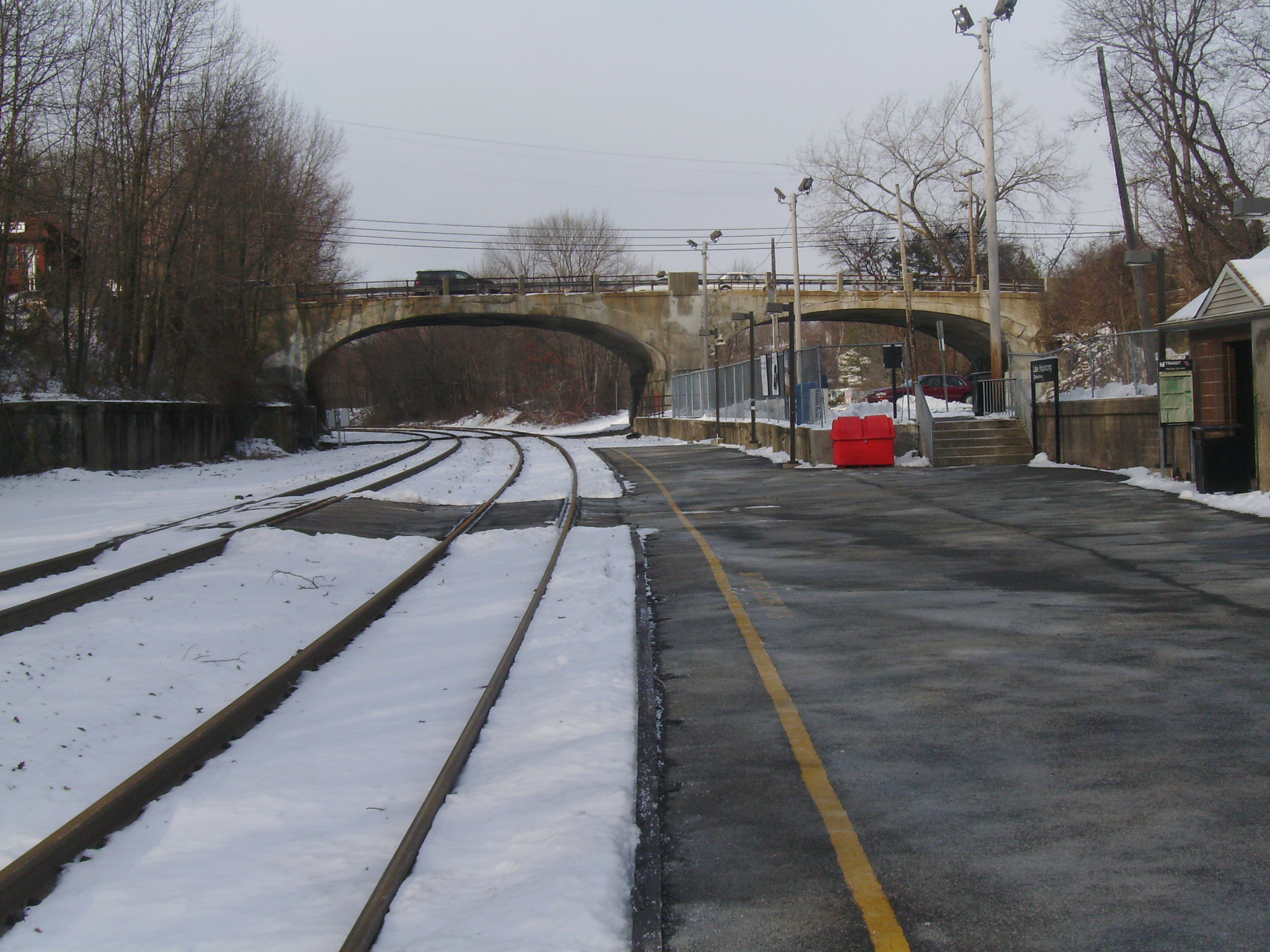 The Lake Hopatcong New Jersey Transit station at Landing, New Jersey. Erie Railroad Bridge 44.53 overlooks the northern end of the station.